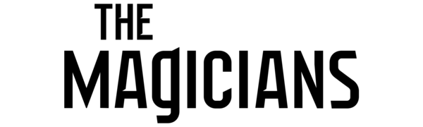 The logo for The Magicians (U.S. TV series)